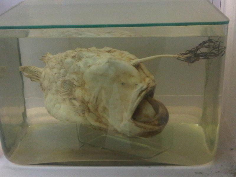 Atlantic footballfish (Himantolophus groenlandicus) at the Natural History Museum in London, England.